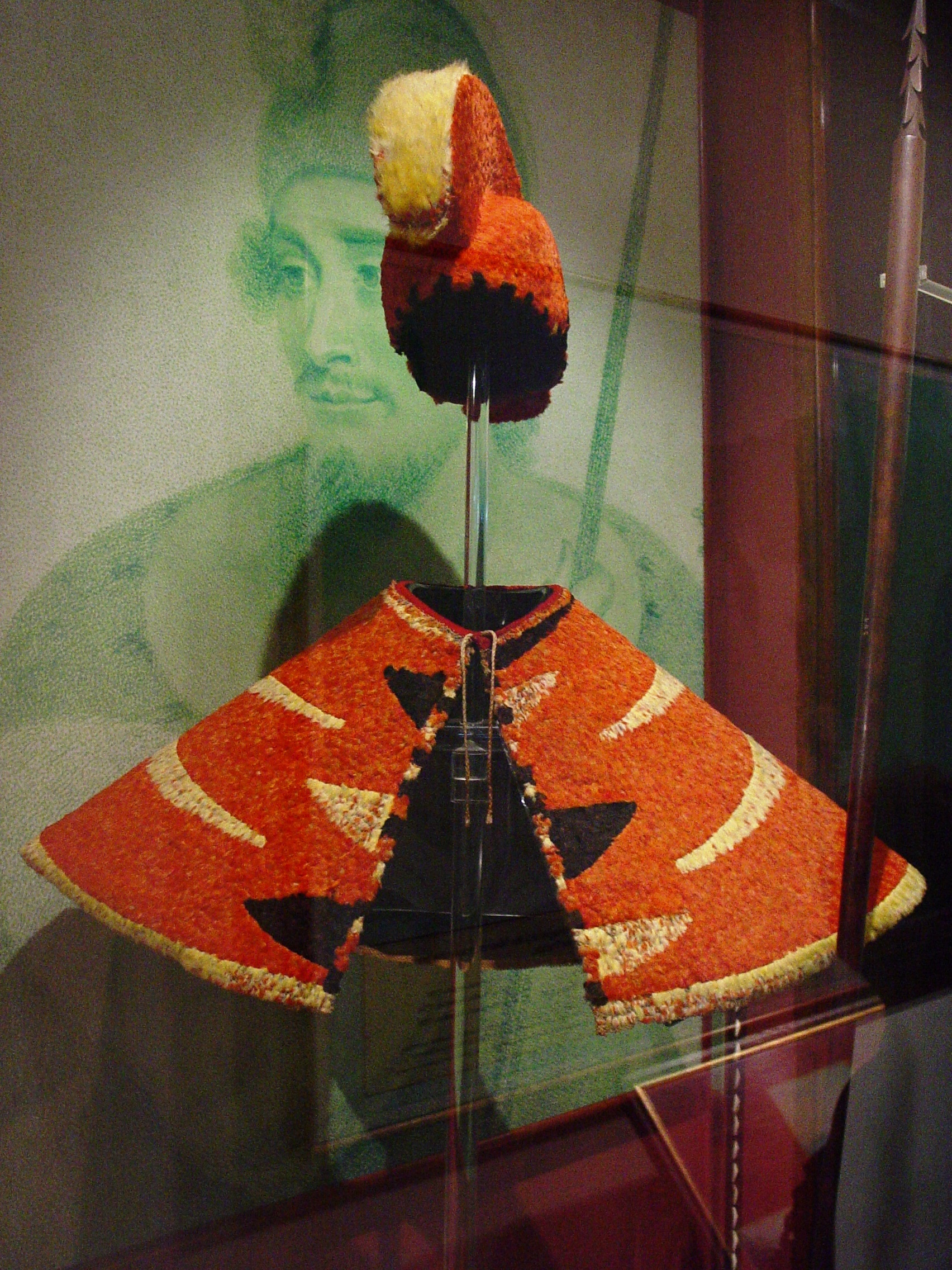 Hawaiian aliʻi wore these featered cloaks and helmets. Hawaiian Chief's Feather Cloak ('ahu 'ula) and Helmet Bishop Museum Oahu, Hawaii. The chief in the background is Kaiana